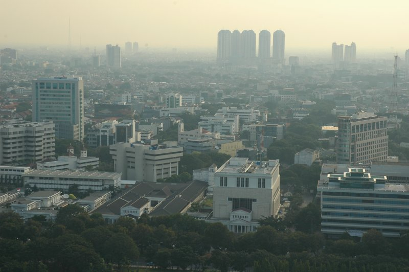 West Jakarta seen from Monas on a smoggy everyday.